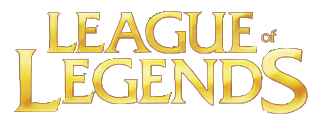 logo of the video game League of Legends